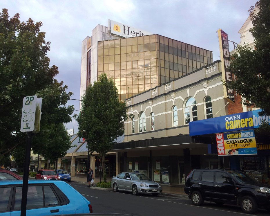 Ruthven St, Toowoomba CBD, Queensland, Australia